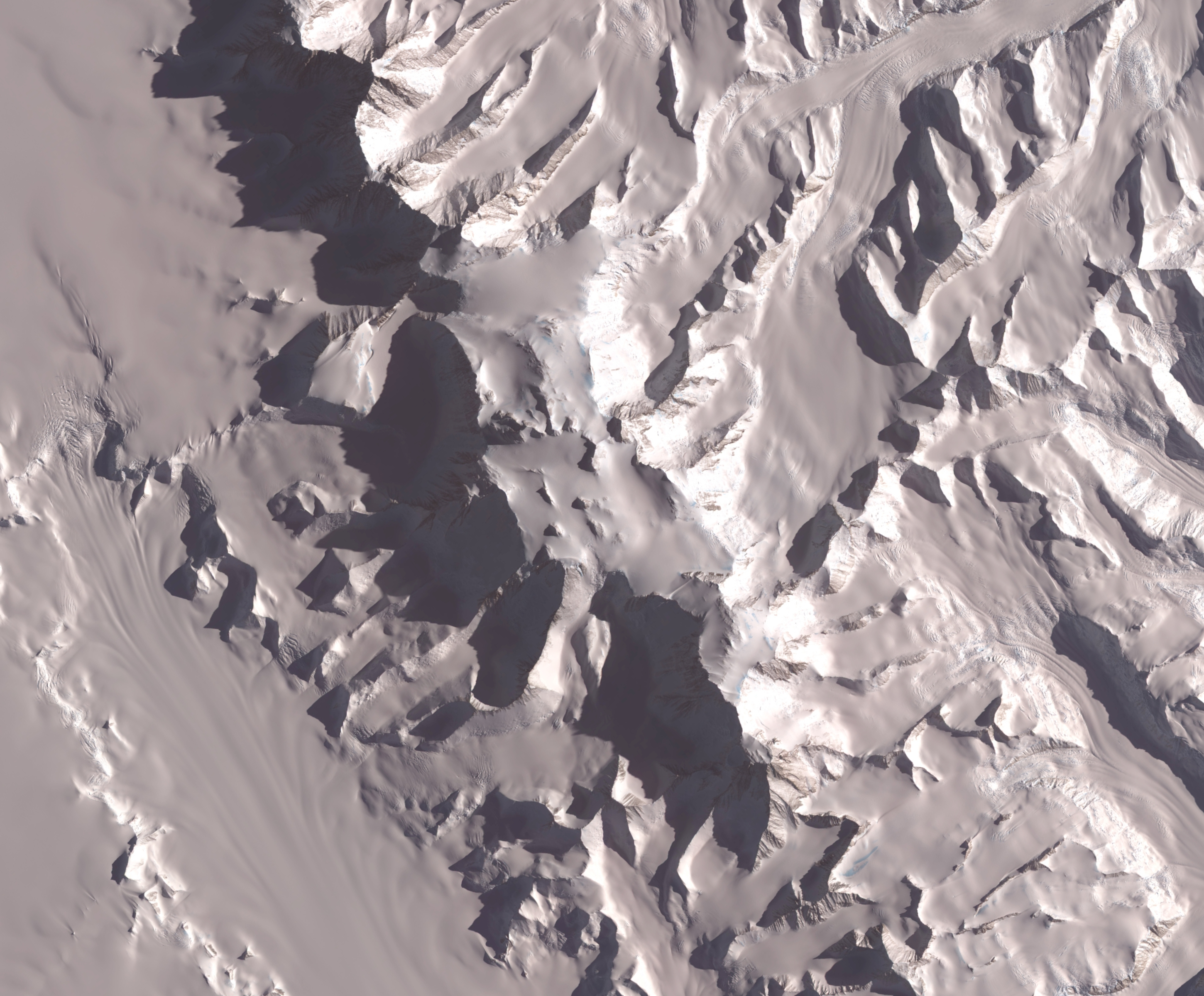 Satellite image of Vinson Massif, Antarctica.